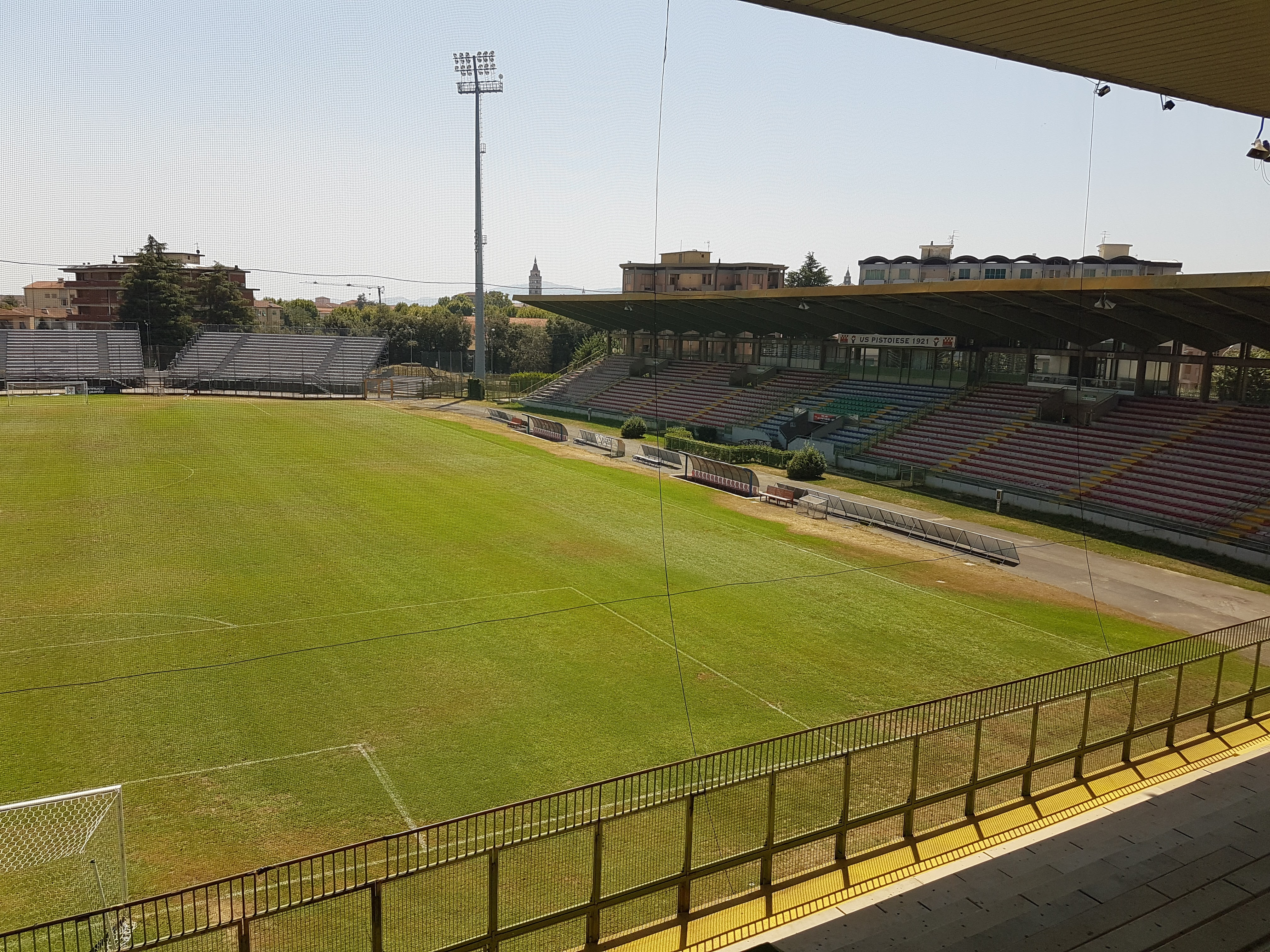 Stadio Marcello Melani, Pistoia, Italy.